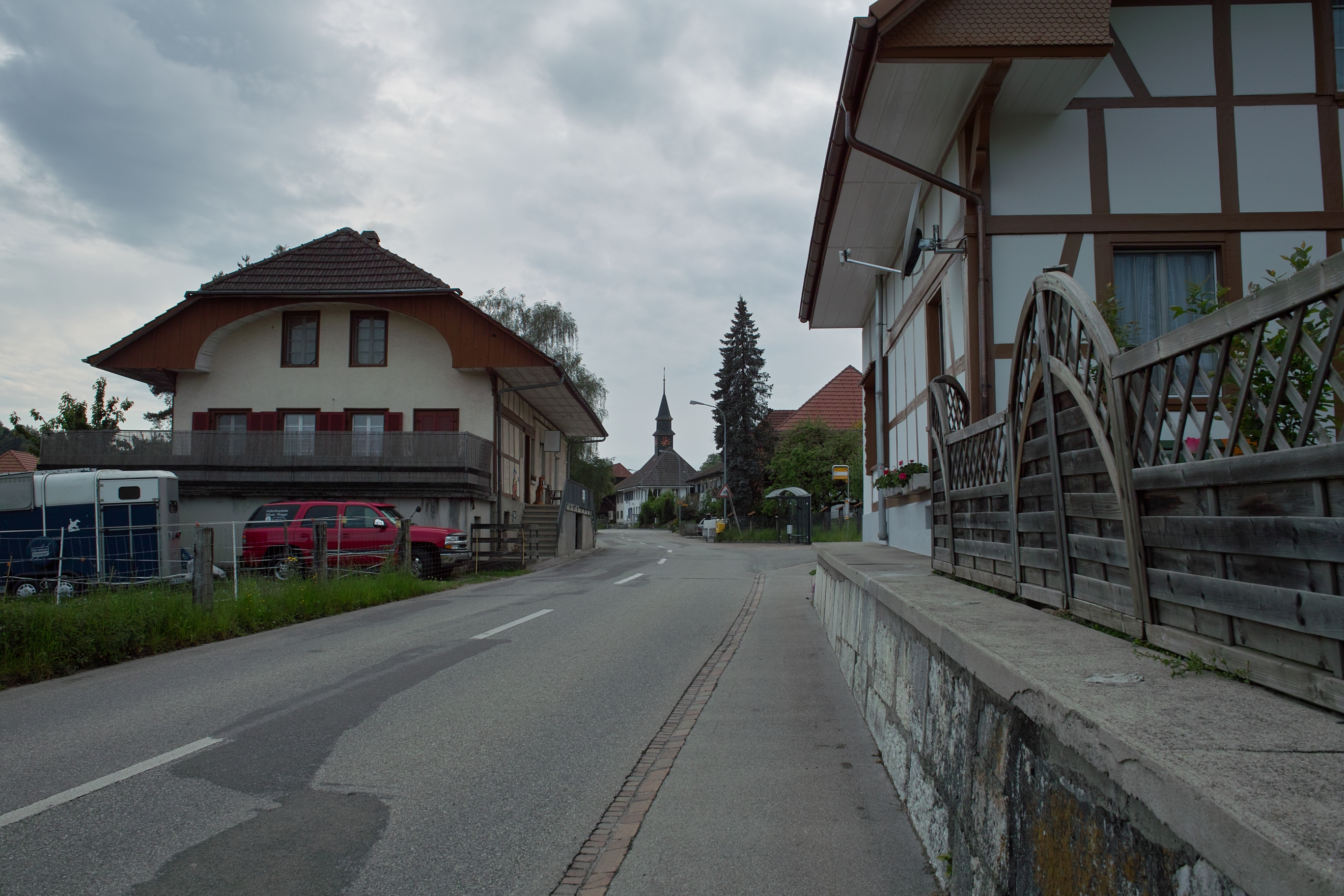 In the village of Bibern, canton of Solothurn, Switzerland.